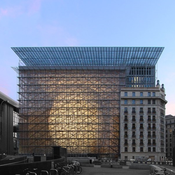 The Europa building is the seat of the European Council and Council of the European Union, located on Rue de la Loi in the European Quarter of Brussels, the capital city of Belgium.